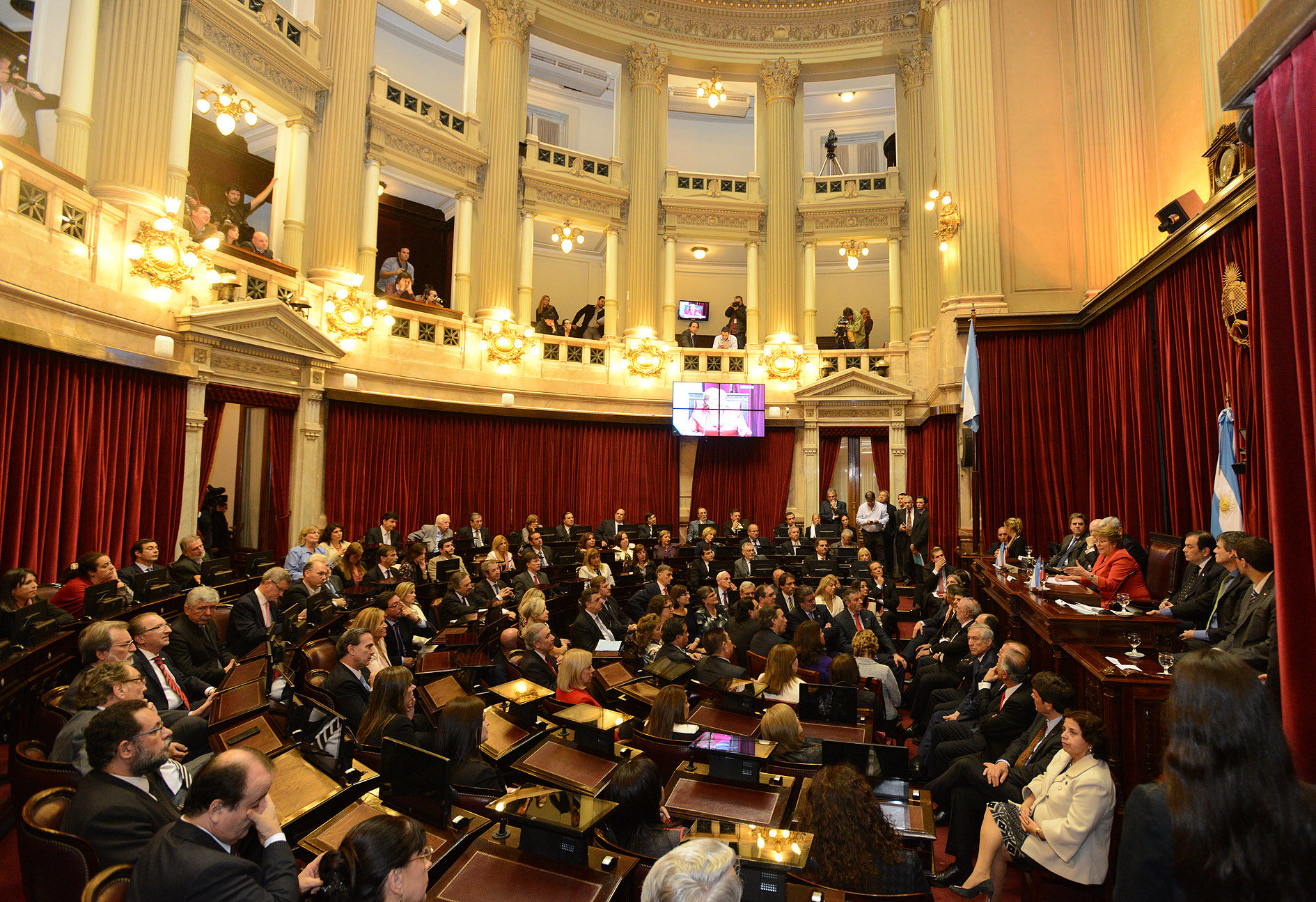 The President of Chile, Michelle Bachelet, addresses the Argentine Senate during her May 2014 state visit.